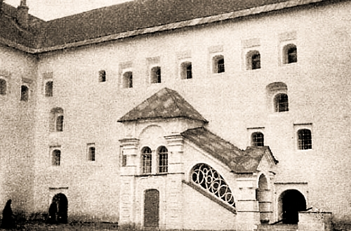 Porch of the Pogankiny's Chambers after a project by Lev Shishko (1902)